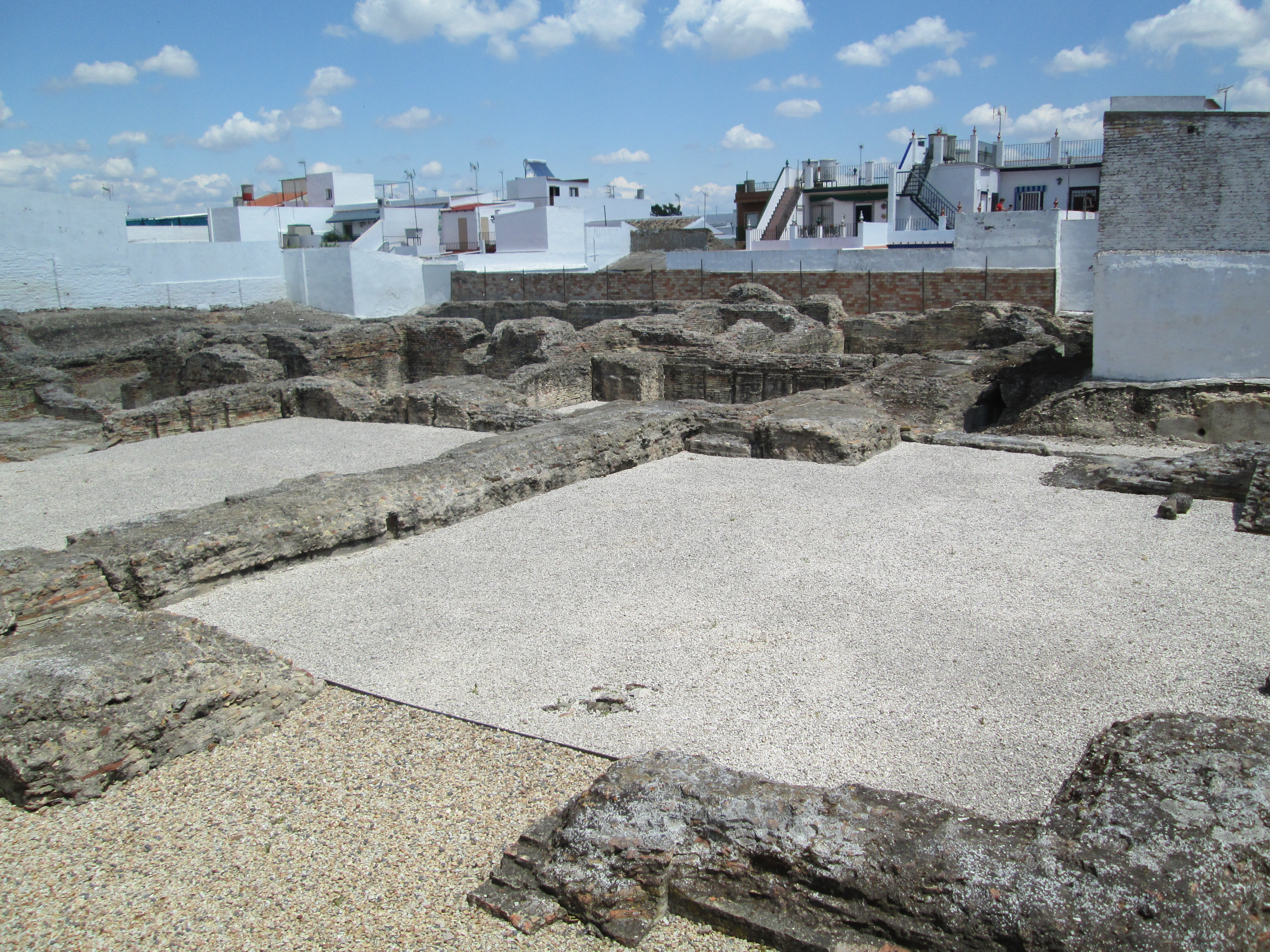 Minor baths of Itálica